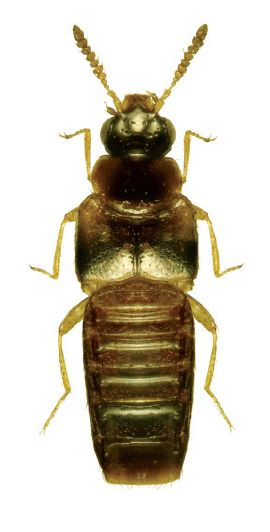 Dorsal view of Gyrophaena (G.) illiana (apical part of abdomen removed).